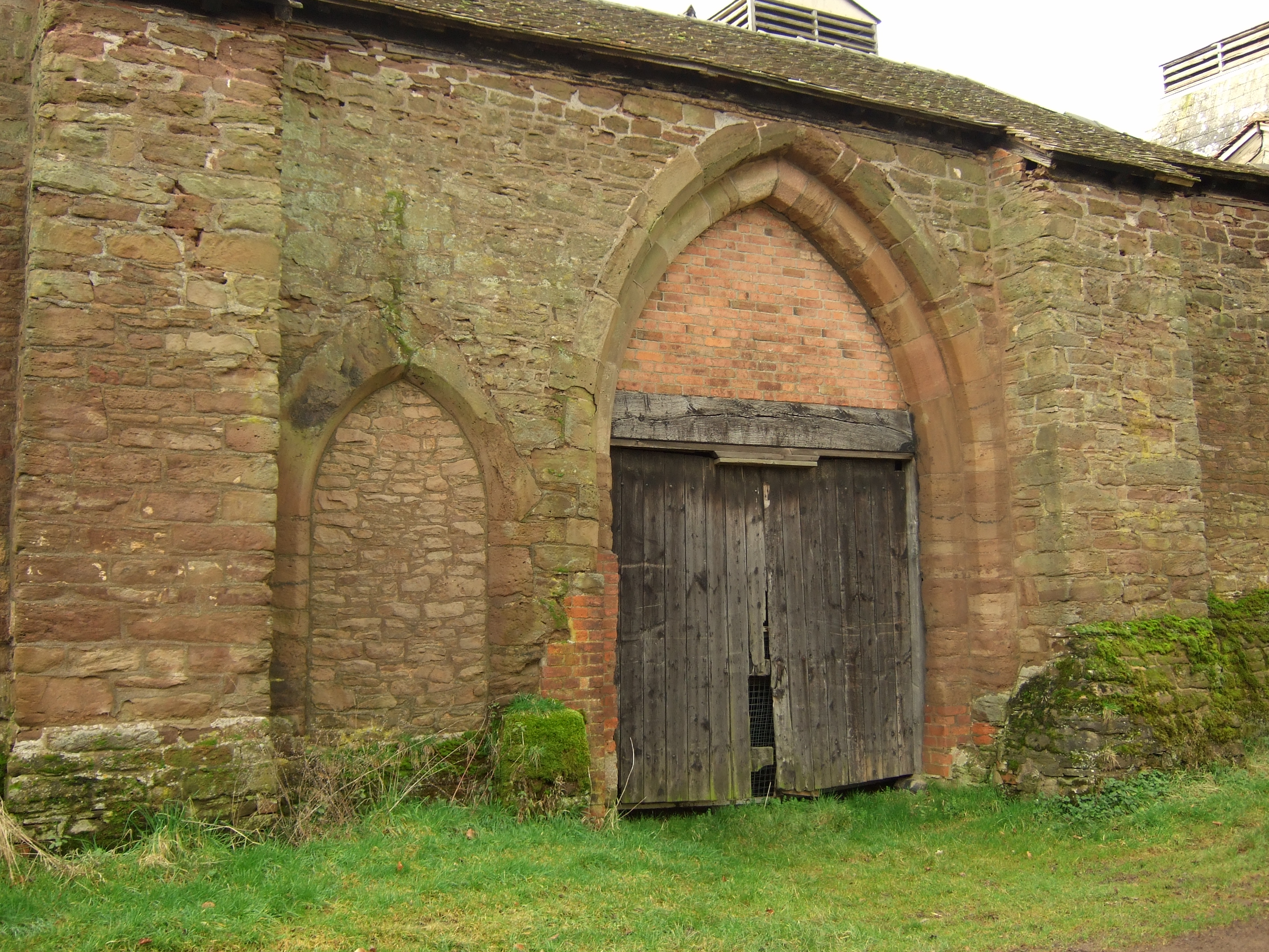 The Gatehouse of the Bishop of Hereford's summer Palace in Bosbury. Photograph shows the stone archway and a Blocked pedestrian entrance.